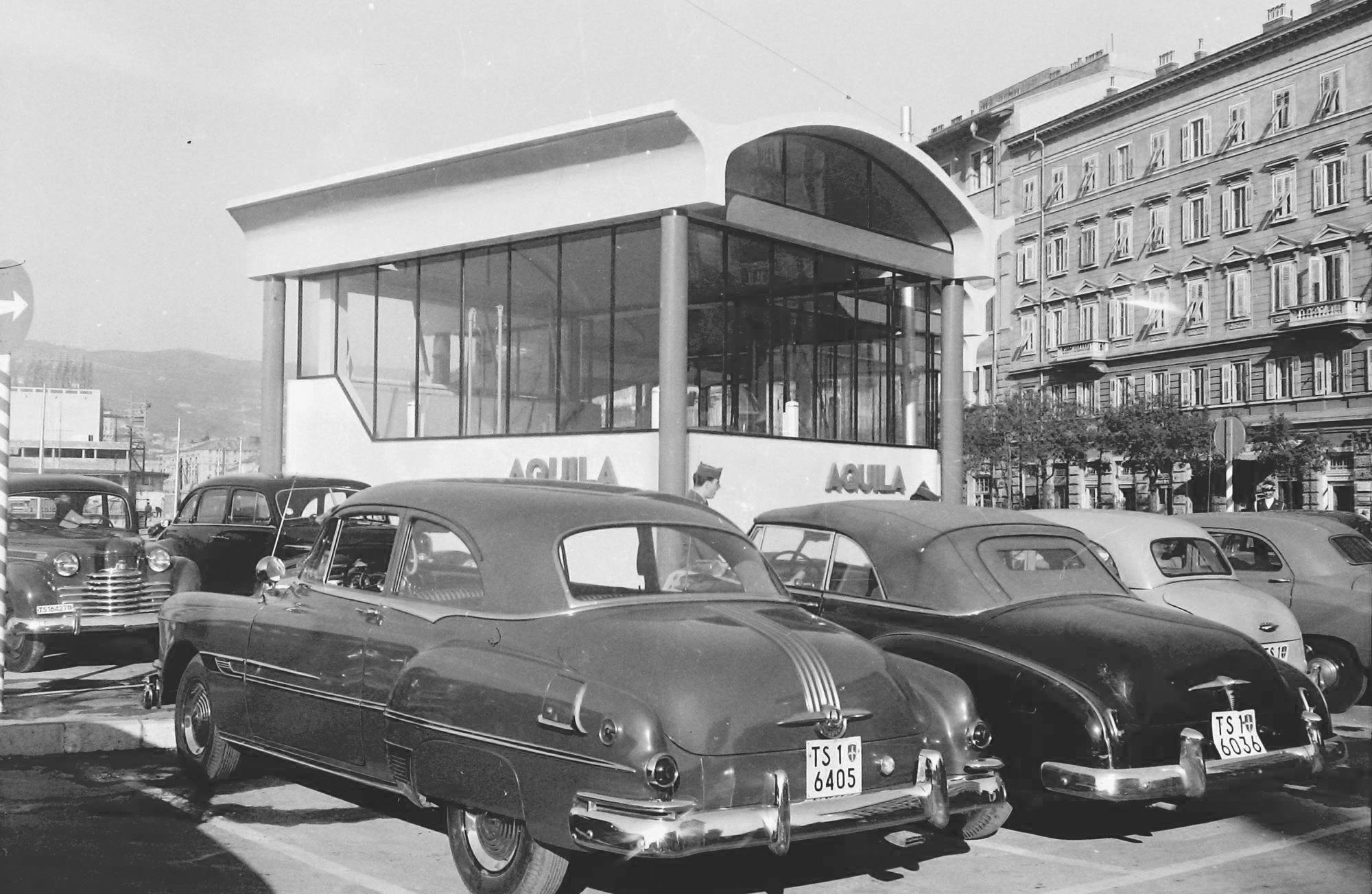 Cars in Trieste during TLT, 1947-1954